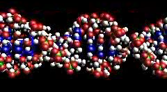 Structure of DNA